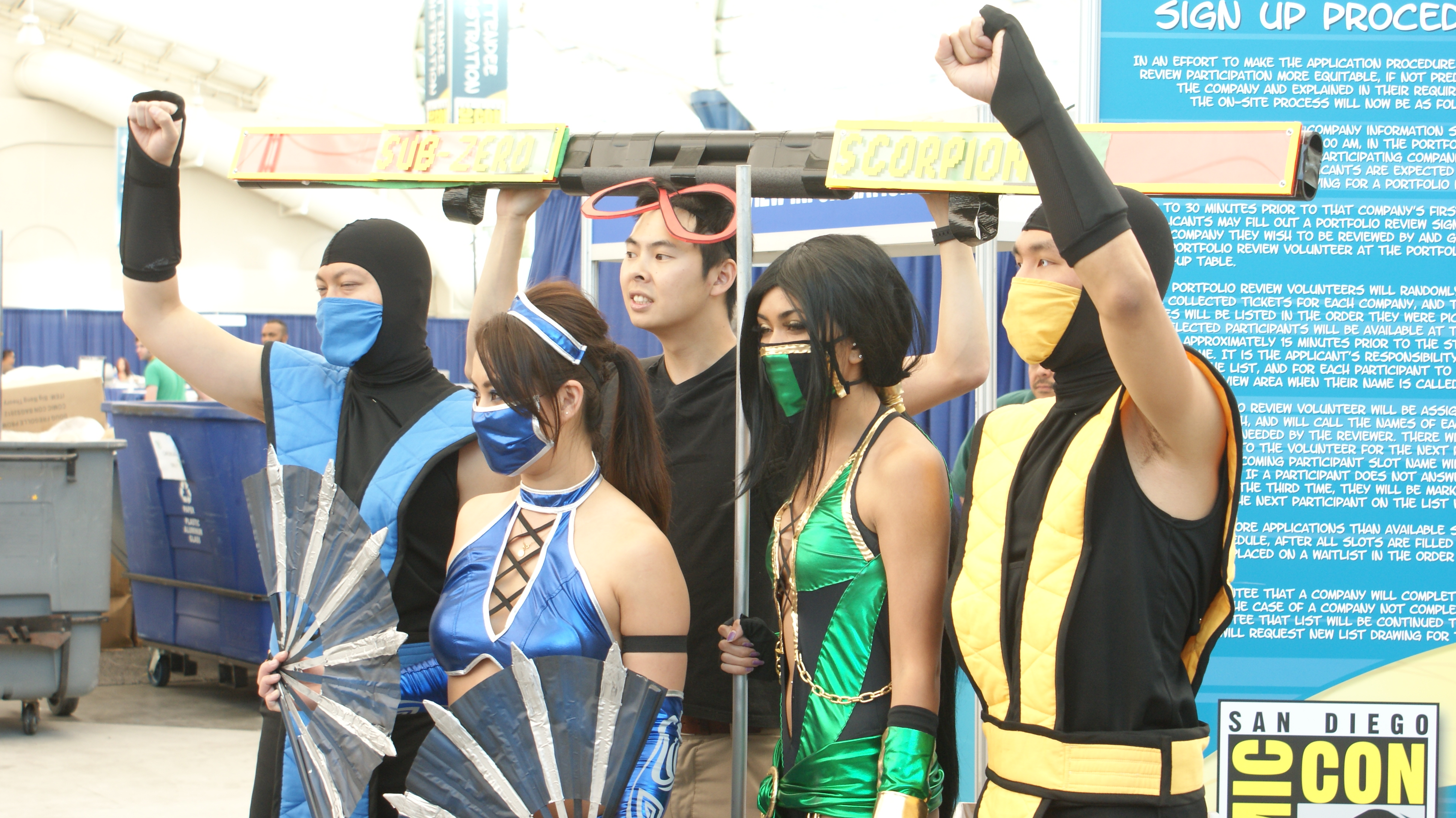 Cosplay at San Diego Comic-Con (SDCC 2012).